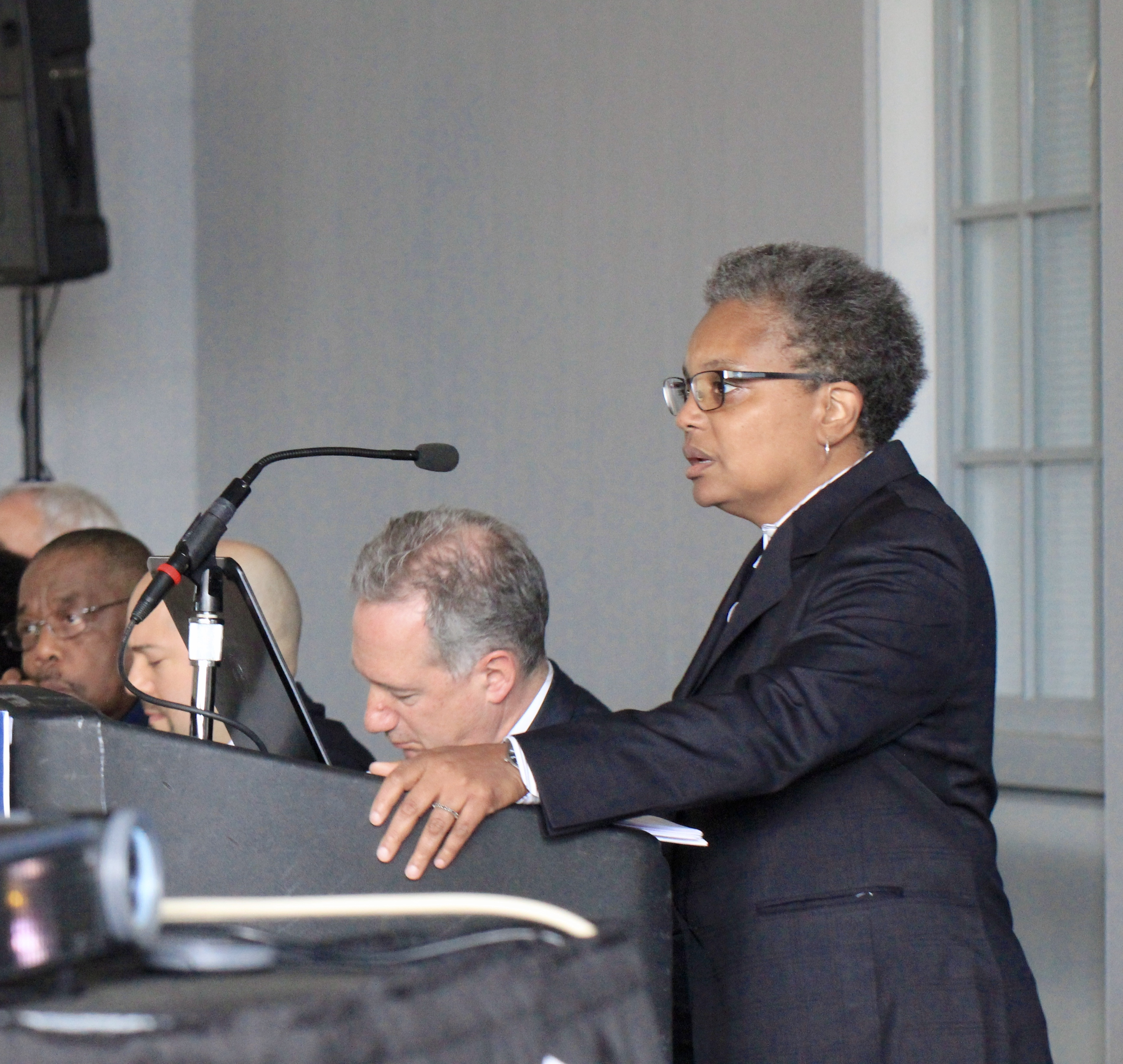 At the Harold Washington Library Winter Garden, April 13, 2016